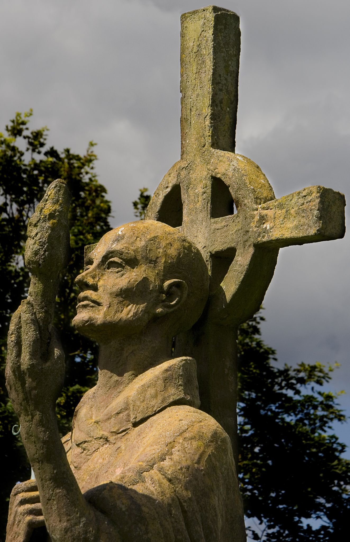 Statue of St Aidan, Lindisfarne Priory